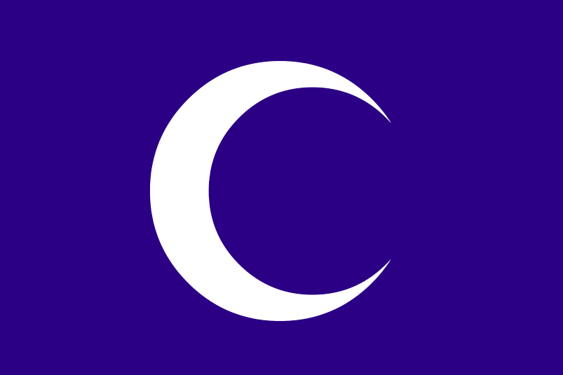 Flag of Zianid Sultanat